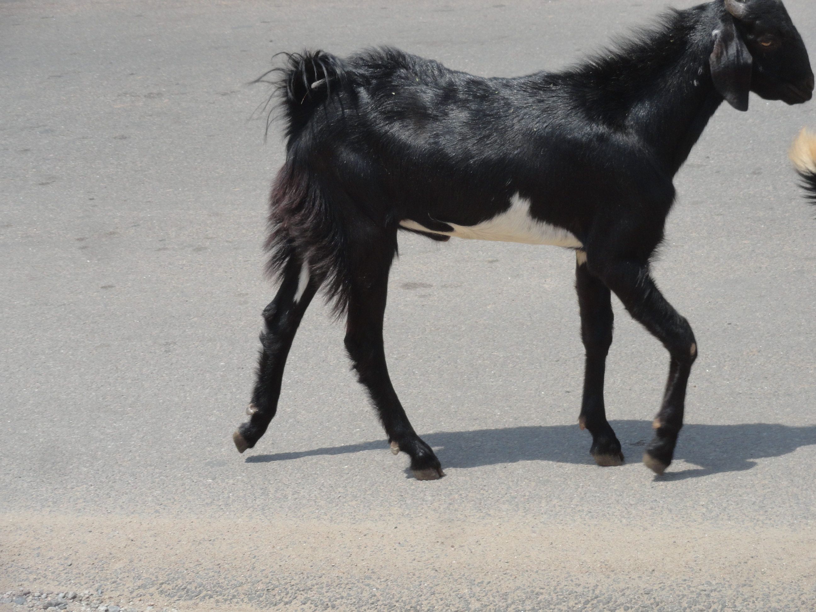 he goat